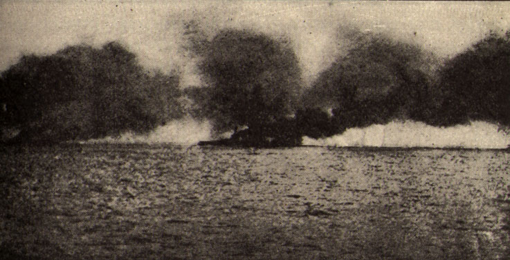 HMS Lion (1910) hit by German shellfire at Jutland Downloaded from [1] who scanned it from The Literary Digest History of the World War, 10 volumes, Halsey, Francis Whiting, ed; Funk & Wagnalls Co, New York and London, 1920